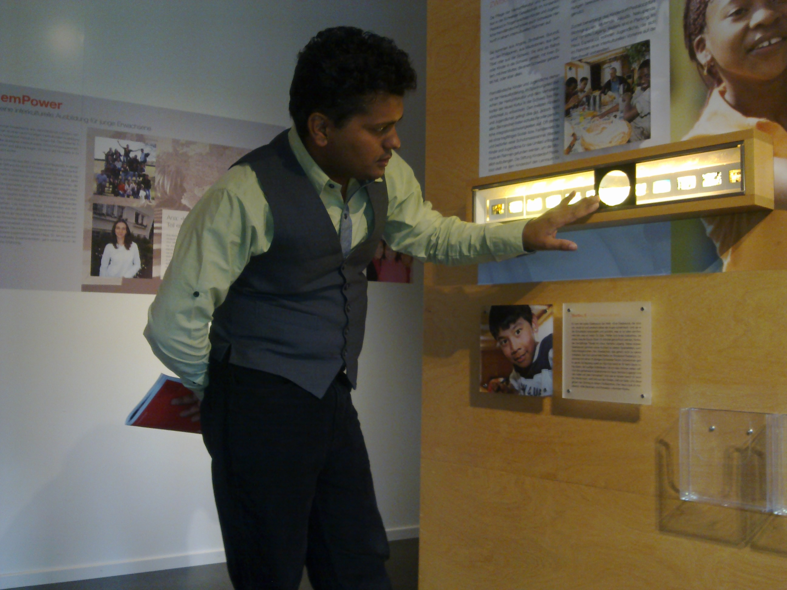 Museum in Pestalozzi Village in Trogen (CH)